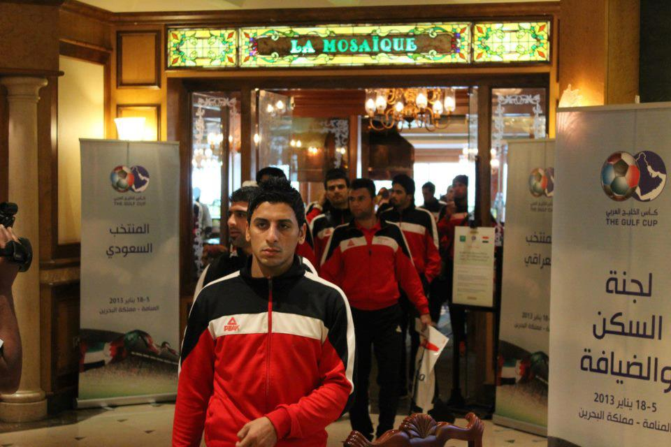 Saif in Gulf cup of Nations 2013